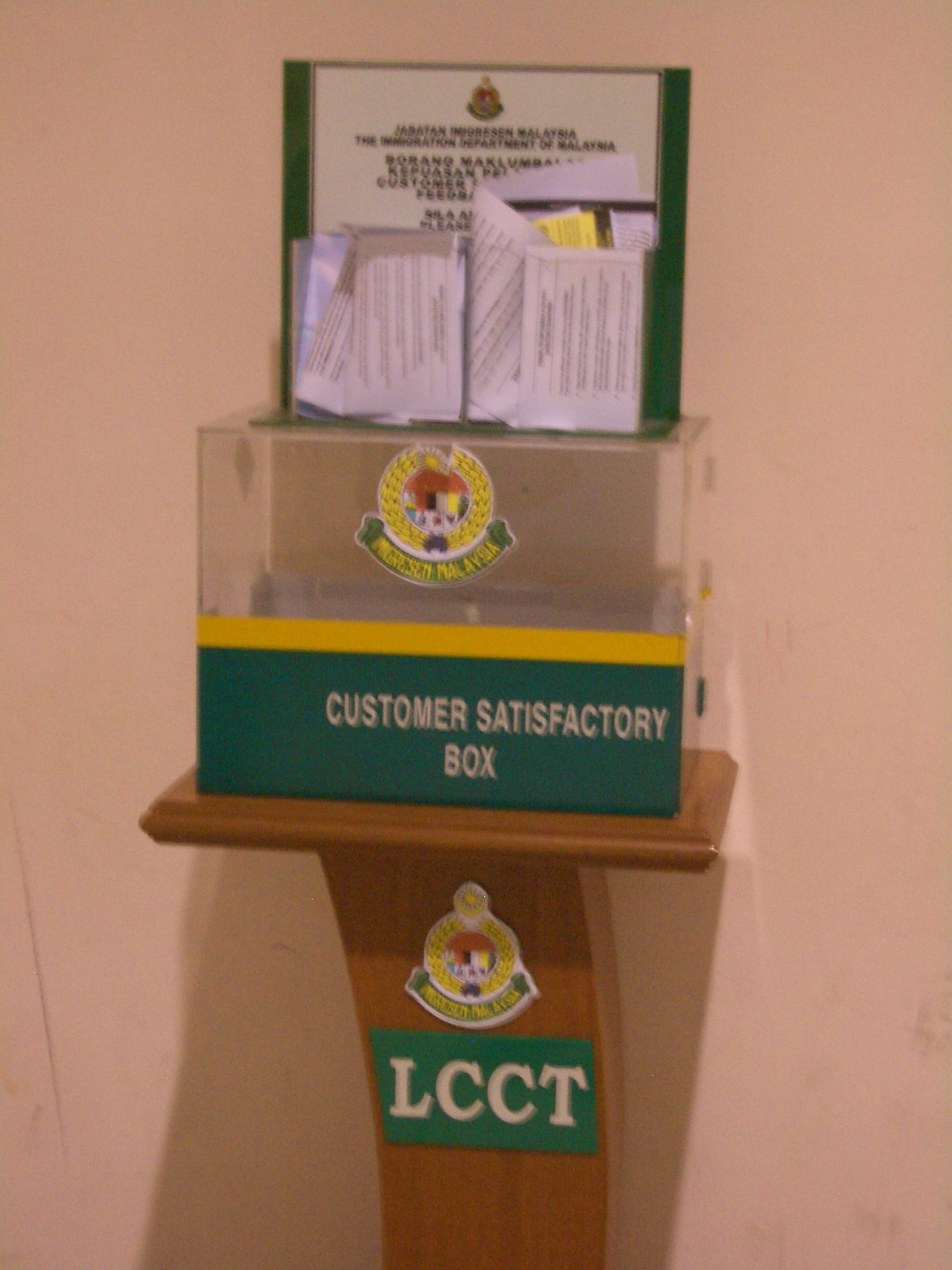 Suggestion box at KLIA LCCT